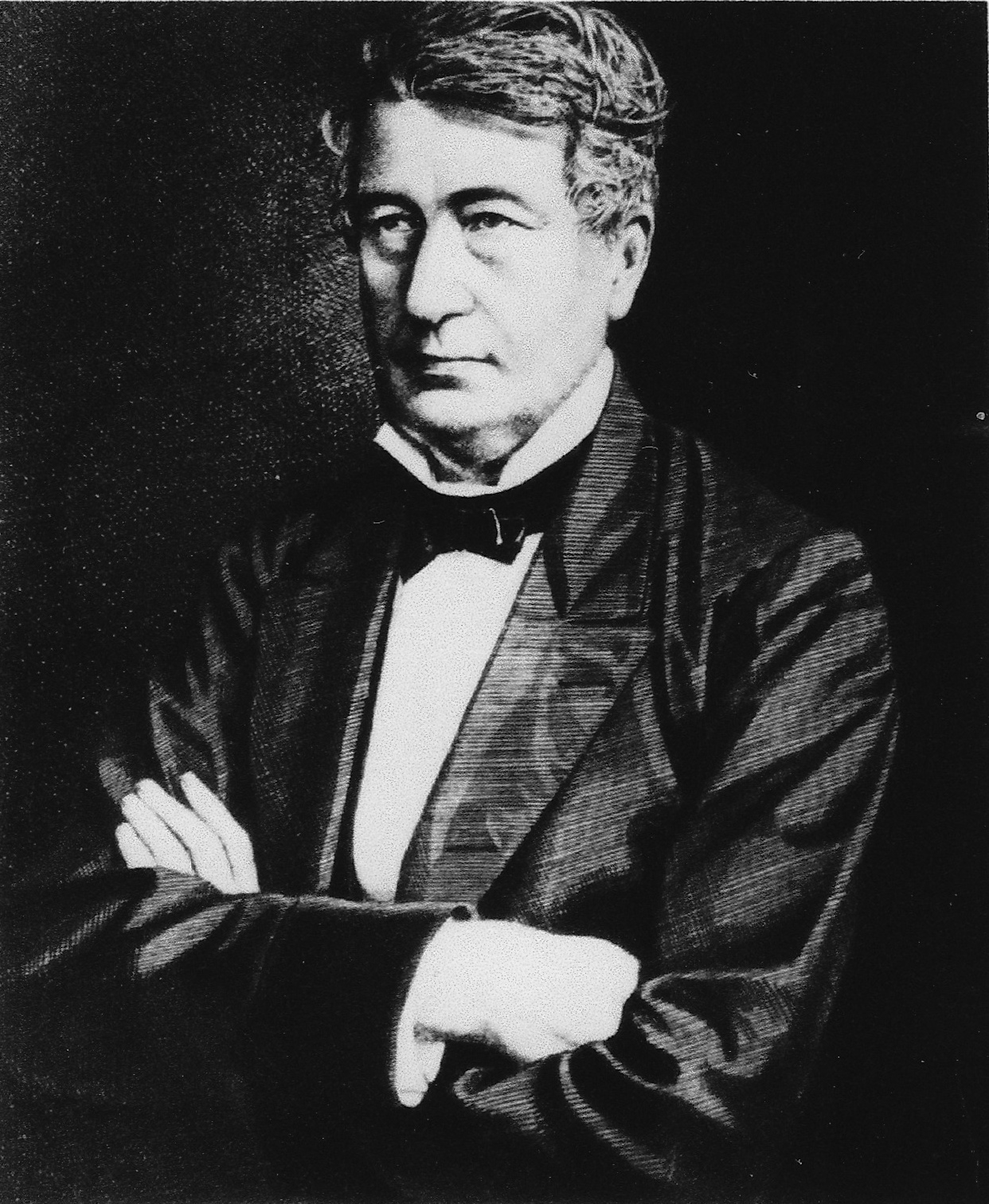 Constantin_Zwenger_(1814-1884)_Founder of Chemical Pharmacology